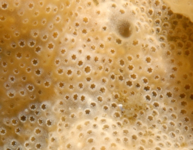 Image DB_STB_DSC3770. Tunicate colony of Didemnum vexillum. Large openings are cloacal apertures; brown material in them is interpreted to be fecal matter in cavities below the apertures. Sandwich town beach (41 deg 46.11 min N lat, 70 deg 28.95 min W lon). Water depth 4 m. November 7, 2006. Observers: Dann Blackwood (USGS) and Sandra Baldwin (USGS). Photo credit: Dann Blackwood (USGS)